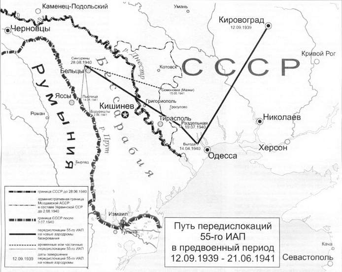 Graphic illustration of dislocation of IAP-55 between 12.09.1939-21.06.1942